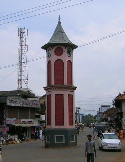 Virajpet clocktower Photo by L. Shyamal, Virajpet, 2006